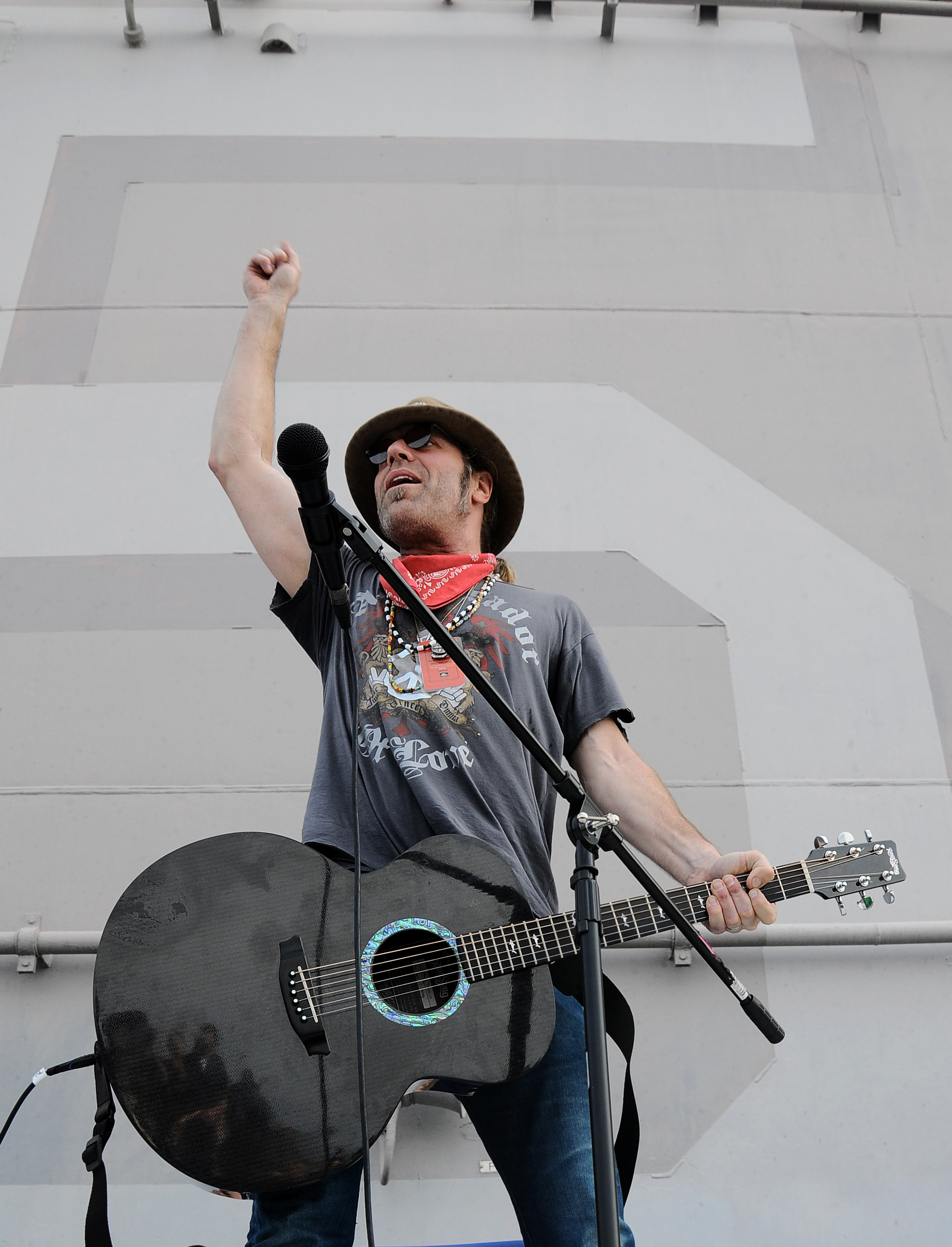 CARIBBEAN SEA (March 3, 2010) Big Kenny, a member of the country music duo Big and Rich, performs on the flight deck of the multipurpose amphibious assault ship USS Bataan (LHD 5) as a way to thank the crew for their efforts during Operation Unified Response after a 7.0 magnitude earthquake caused severe damage in and around Port-au-Prince, Haiti Jan 12. (U.S. Navy photo by Mass Communication Specialist 2nd Class Kelvin Edwards/Released)